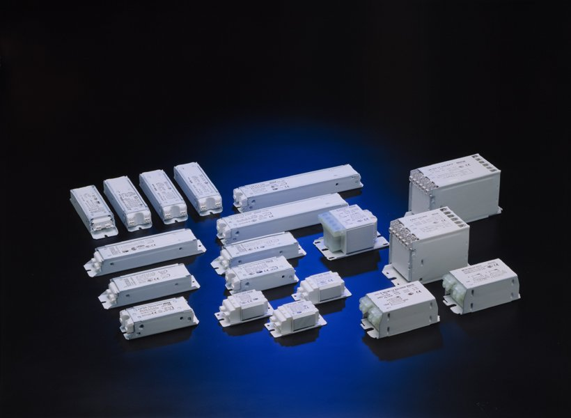 Different magnetic ballasts for different luminescent lamps